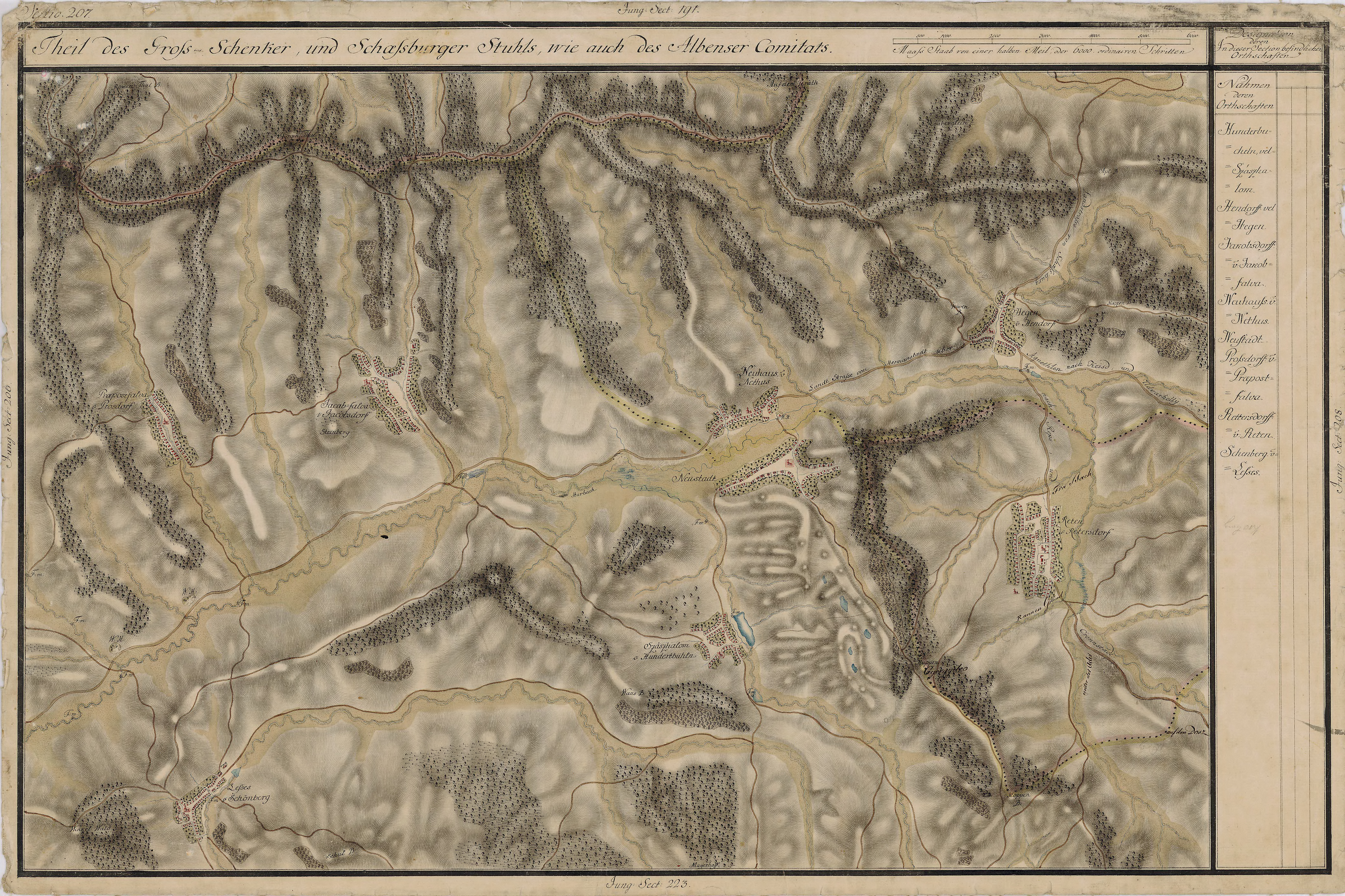 Grand Duchy of Transylvania, 1769-1773. Josephinische Landaufnahme pg.207